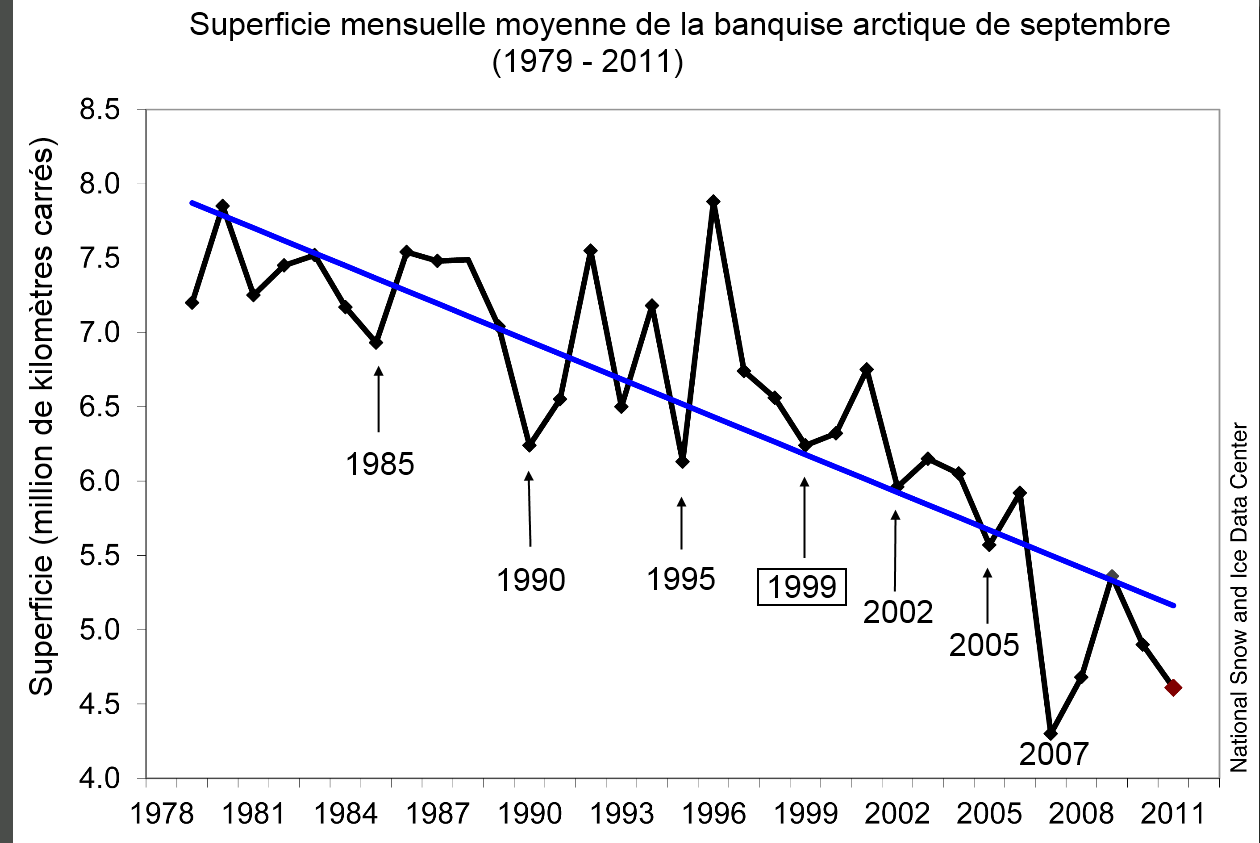 Pour chaque année (1979 à 2011) : superficie mensuelle moyenne de la banquise arctique de septembre.